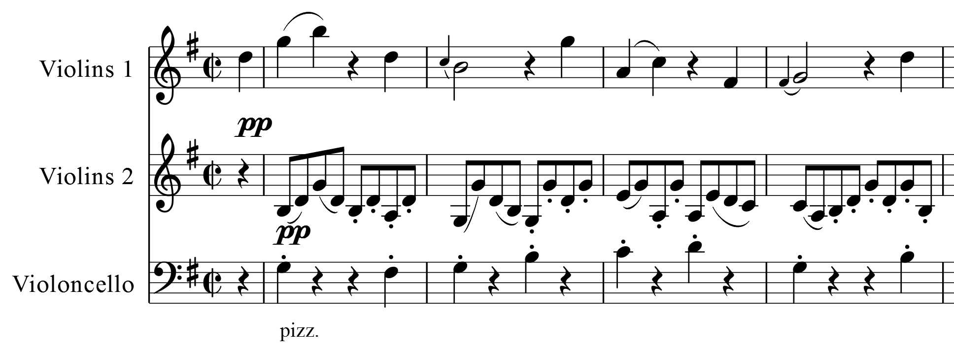 Joseph Haydn, Symphony No. 20, second movement, bar 1-4